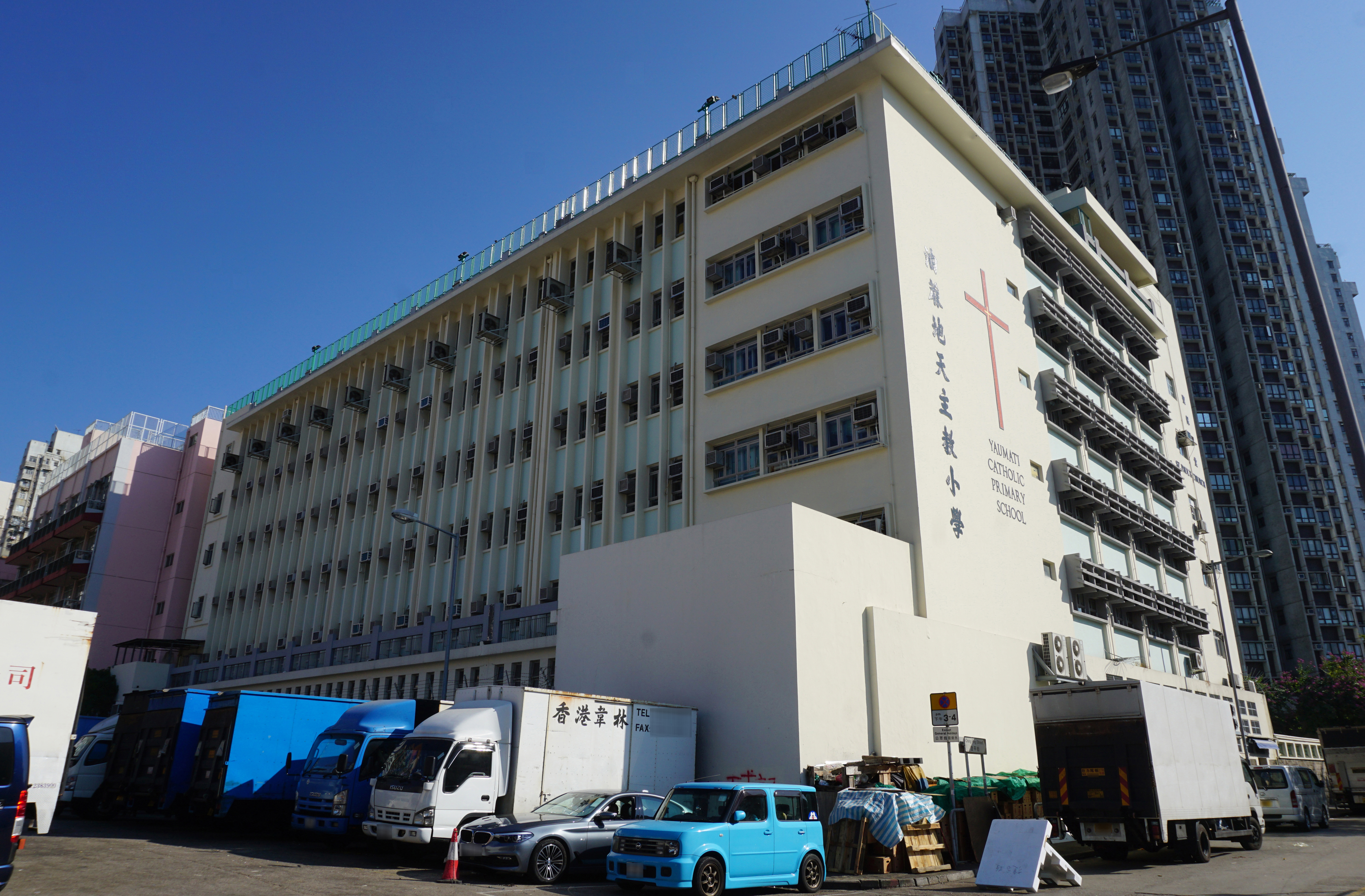 Yaumati Catholic Primary School in Yau Ma Tei, Hong Kong.